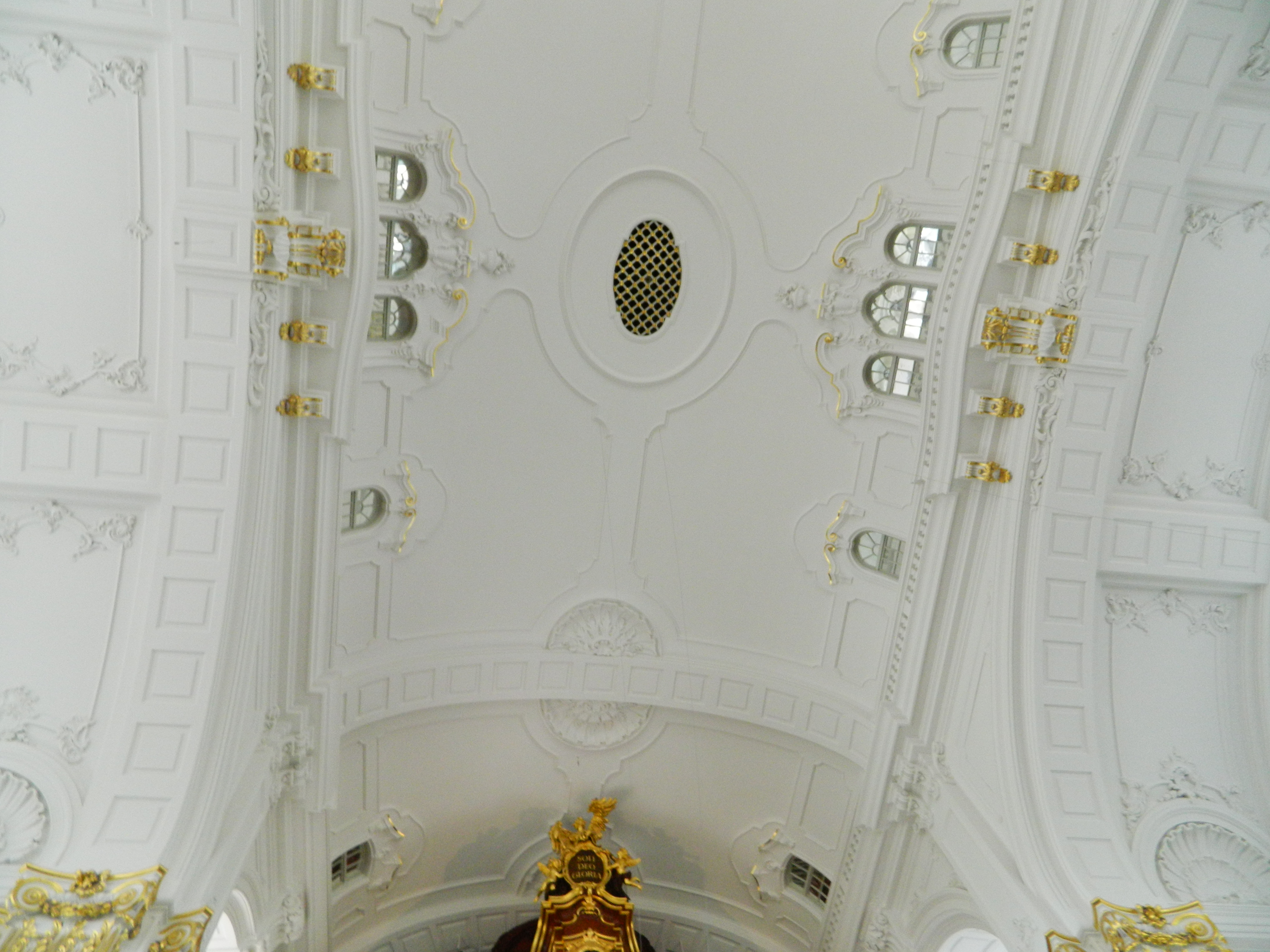 Hamburg. St. Michaelis Church